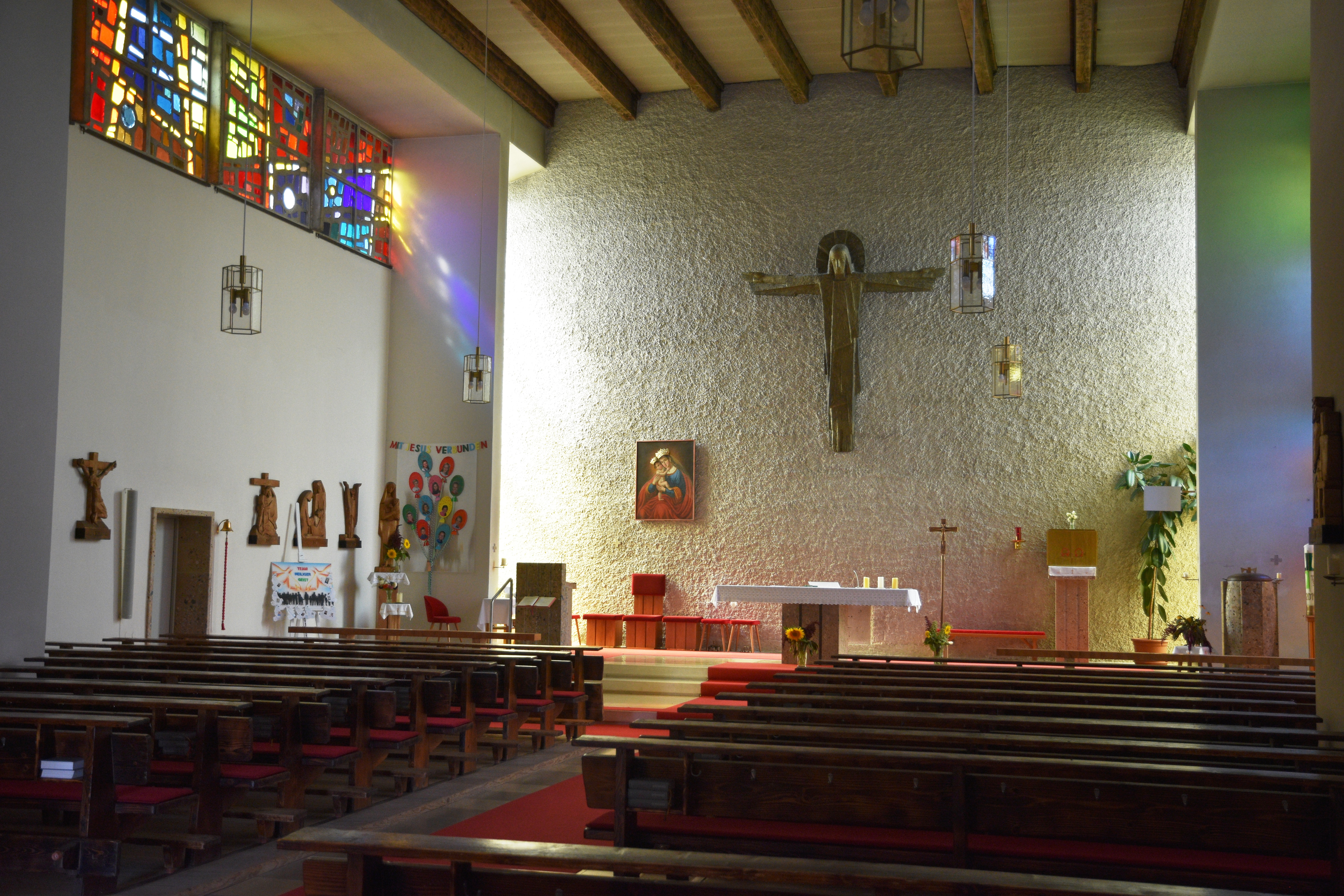 Church Hochwolkersdorf - Interior